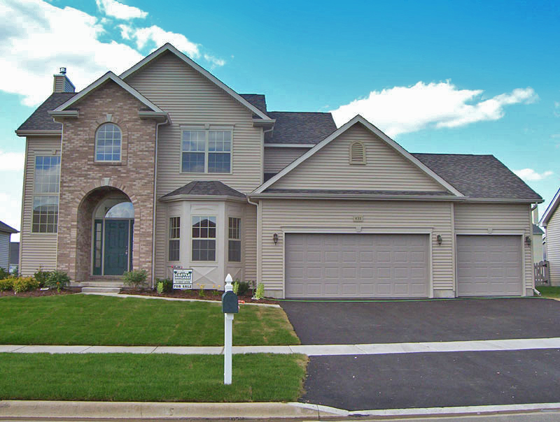 Big single-family home